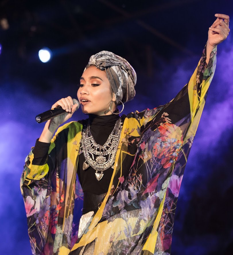 Credit: Redie / @kodsfreak_